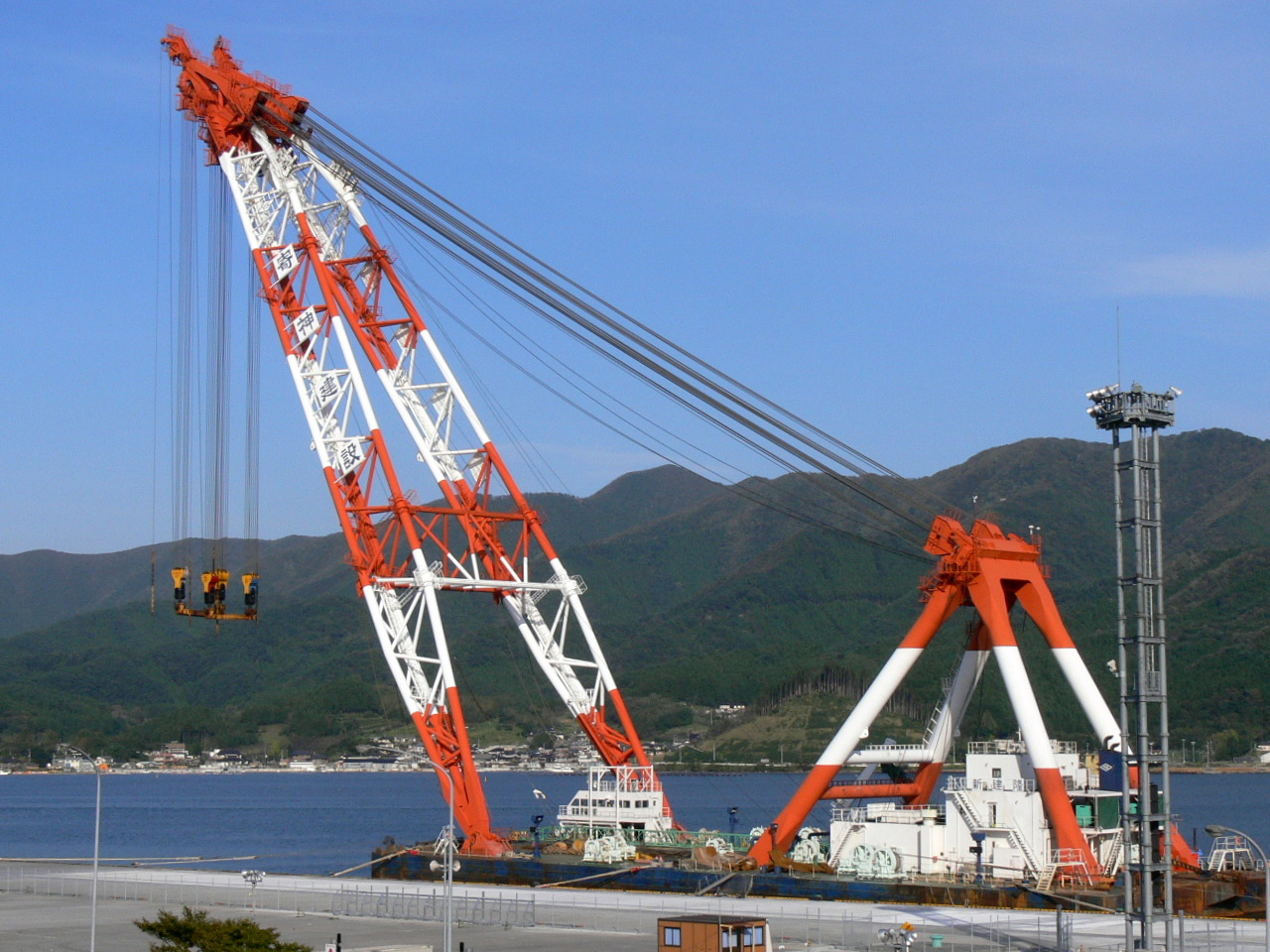 Ofunato Port（Iwate prefecture , Japan）.